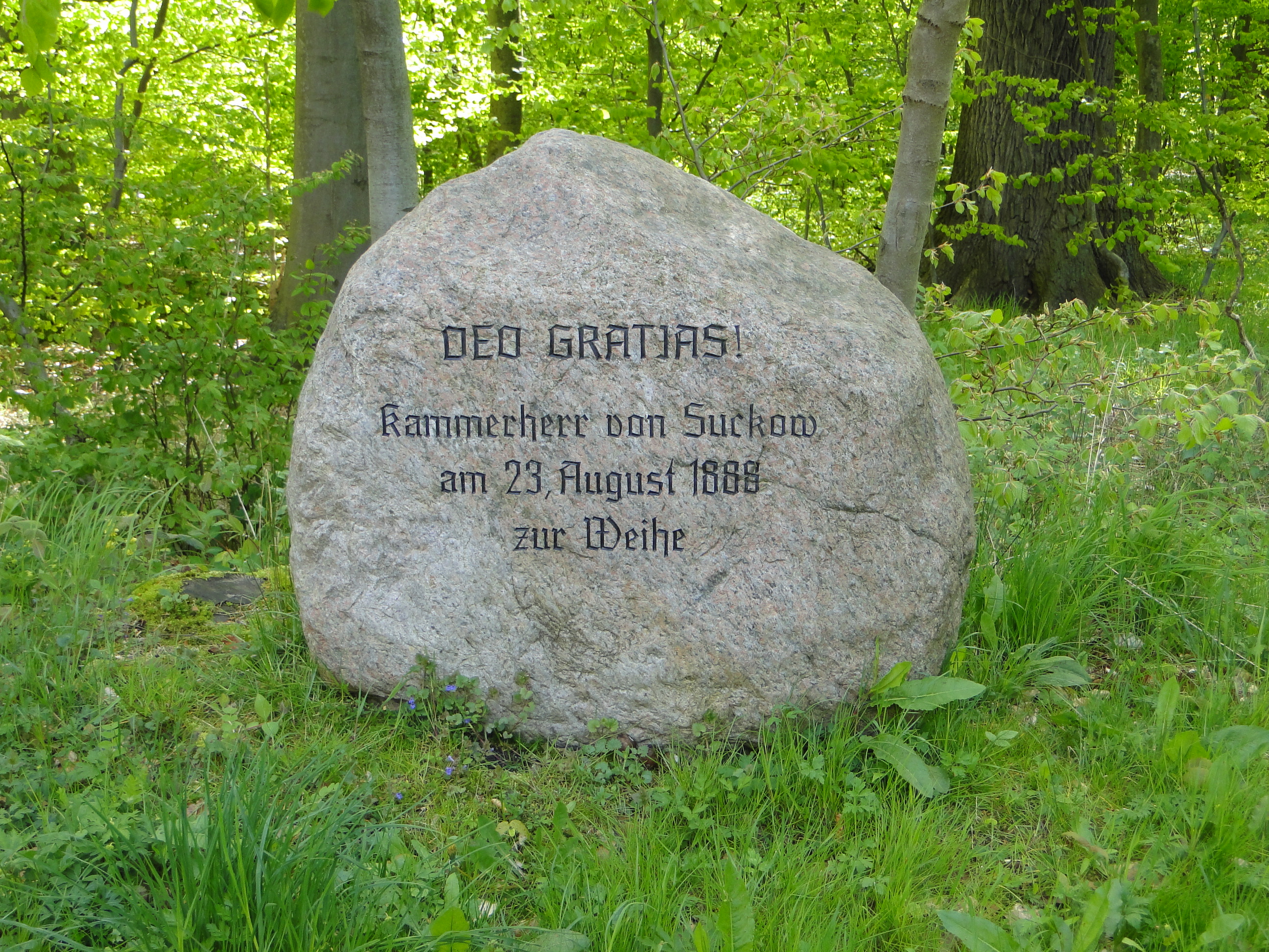 Chapel in forest in Heiligendamm, disctrict Bad Doberan, Mecklenburg-Vorpommern, Germany